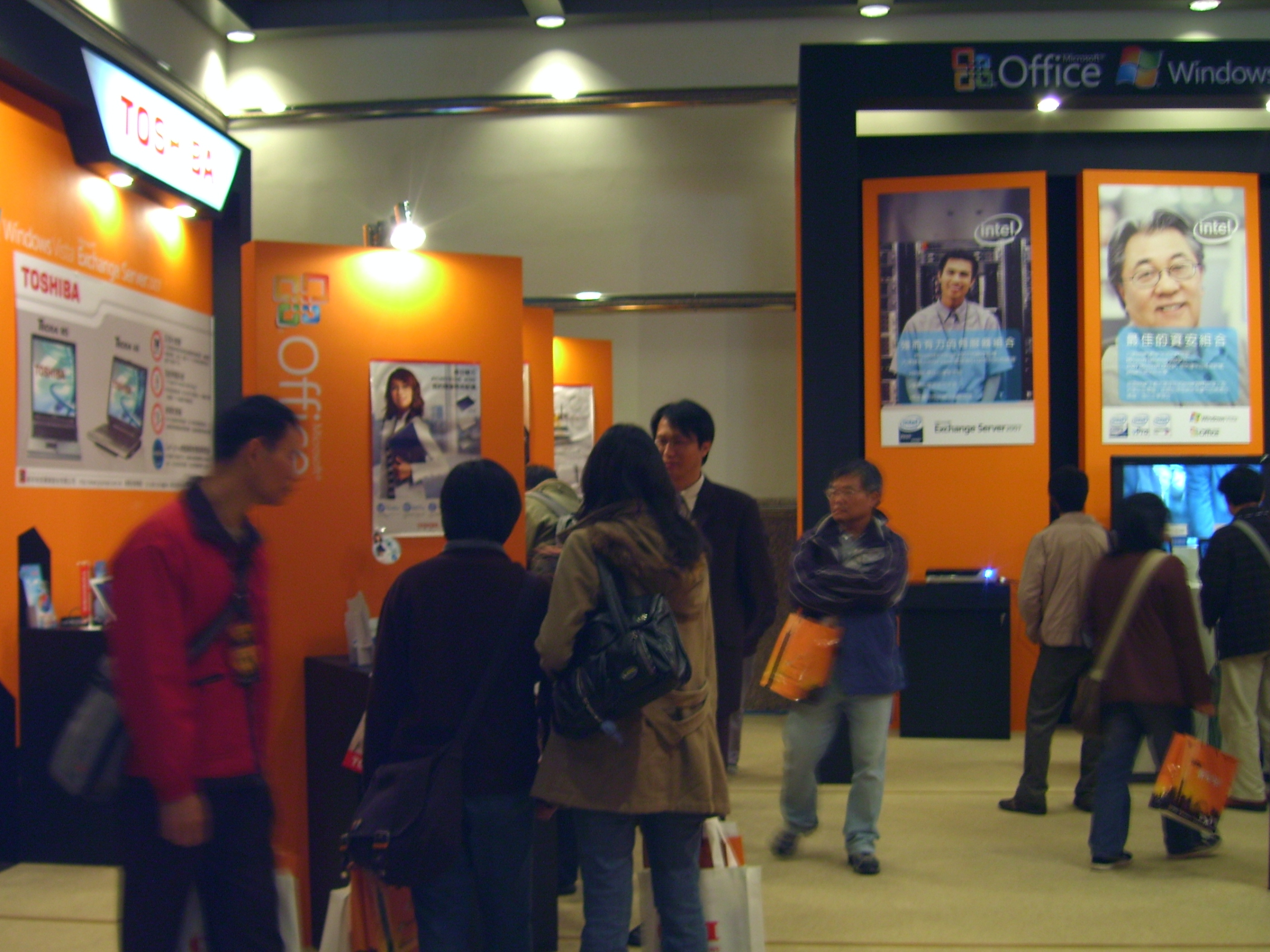 Office 2007 Launch in Taipei International Convention Center, Taiwan.